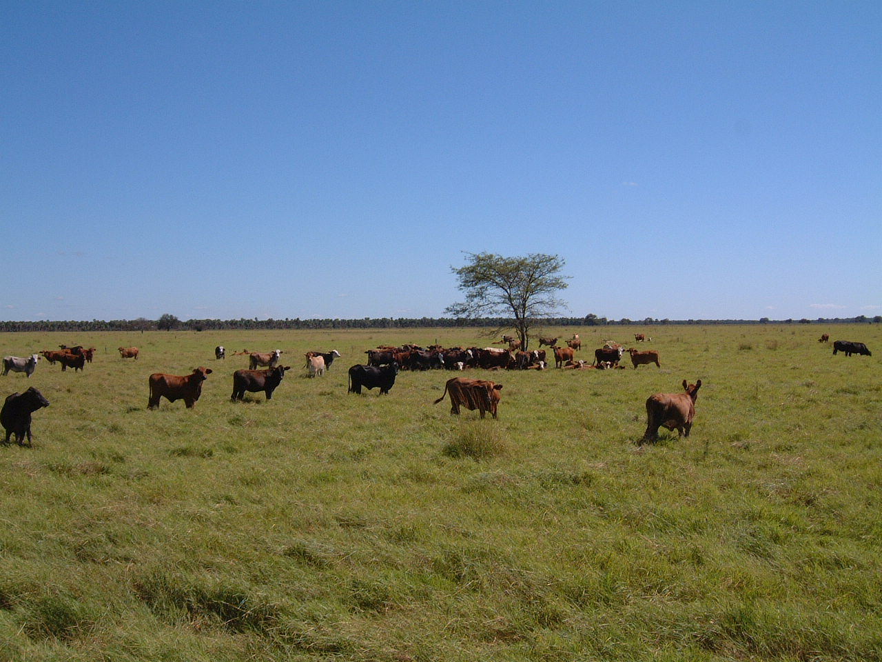 Paraguay Chaco, Cattle ranch, improved sown pasture on cleared formerly savanna land, Presidente Hayes Province